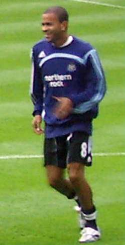 English footballer Kieron Dyer in training.